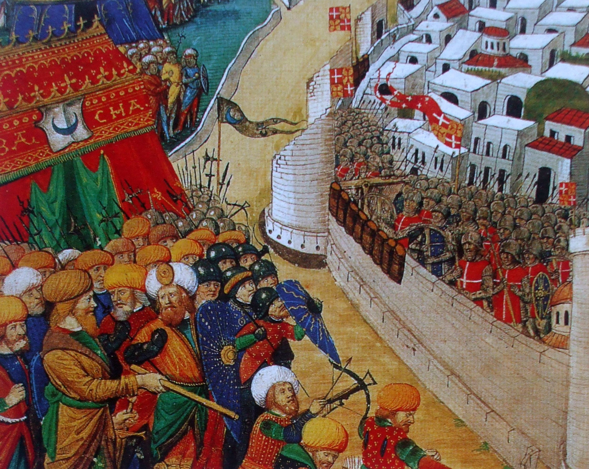 Siege of Rhodes